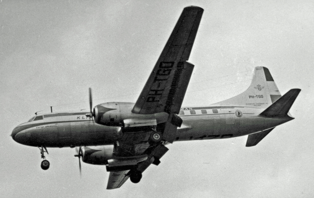 KLM Convair 340-48 PH-TGD "Pieter Breughel" on approach to Manchester (Ringway) Airport